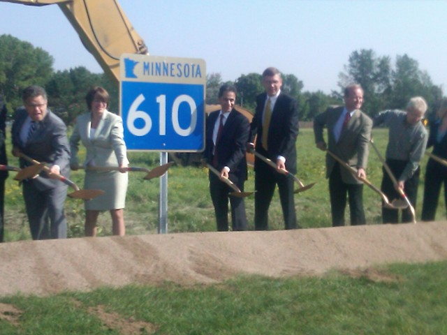 Groundbreaking on Minnesota State Highway 610 extension